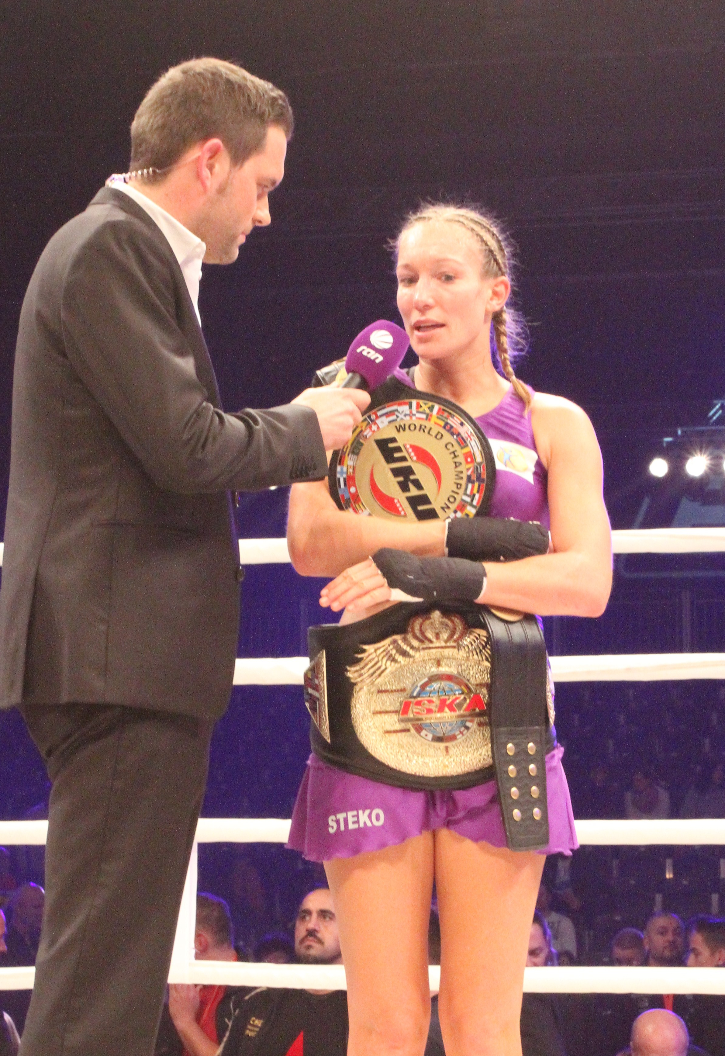 Christine Theiss WKU World Champion 2012